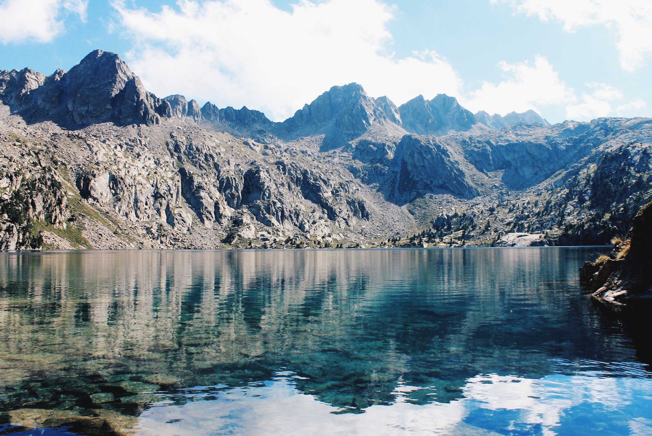 Estany Negre de Peguera This is a photography of a Site of Community Importance in Spain with the ID: ES0000022. Natura2000 entry, EEA entry